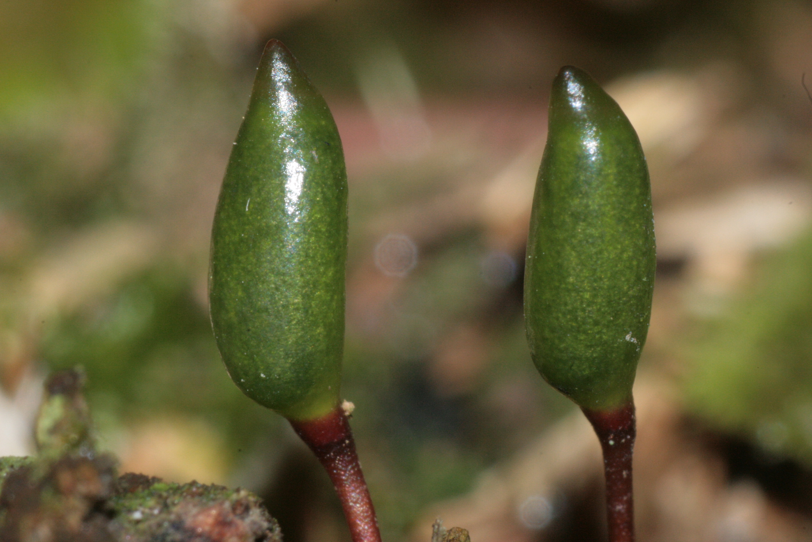 Buxbaumia viridis